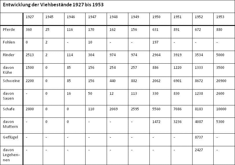 The table shows the livestock of the company Berliner Stadtgüter from 1927 to 1953.